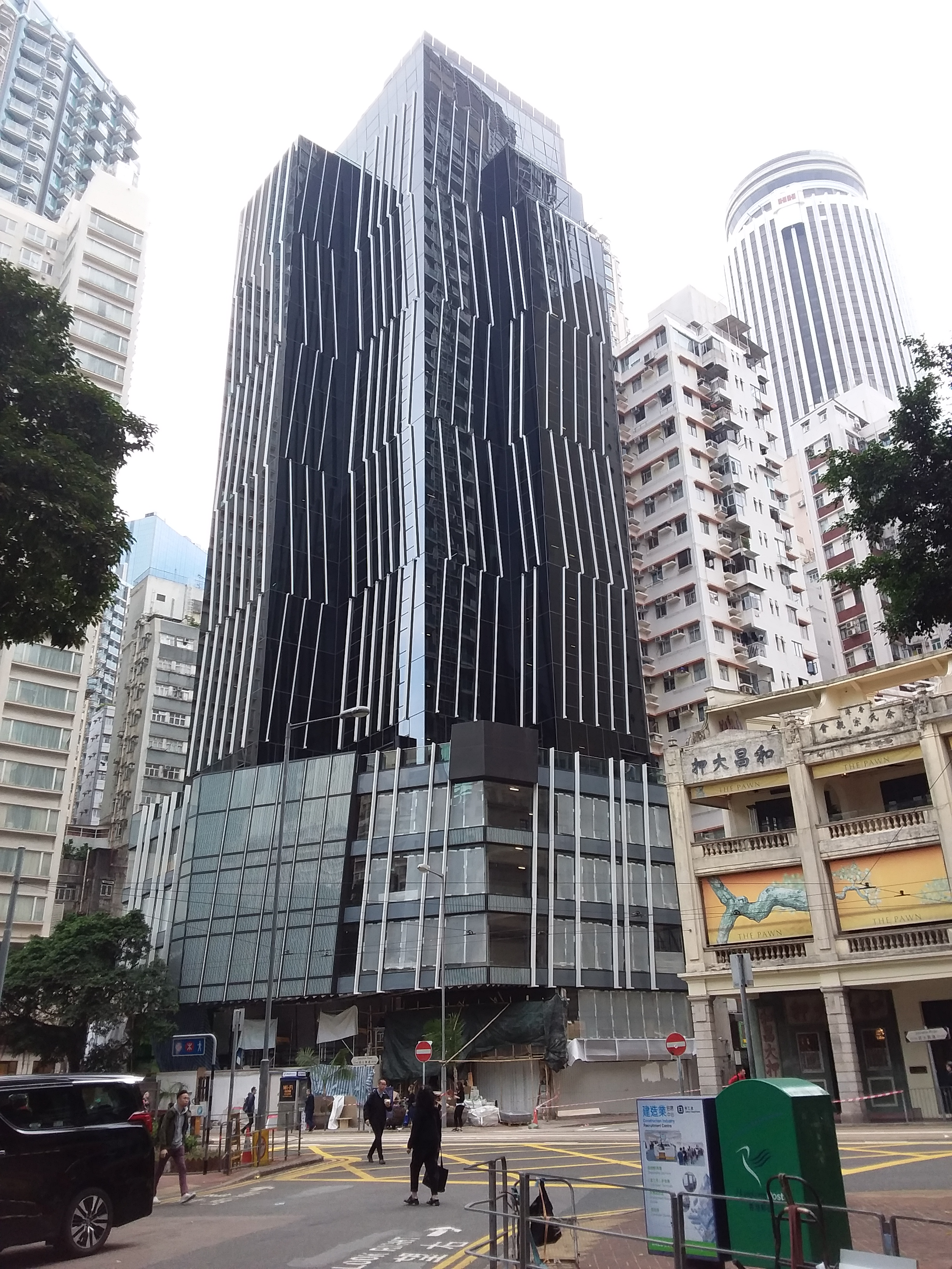 HK 灣仔 Wan Chai 莊士頓道 Johnston Road 和昌大押 Wo Cheong Pawn Shop 大王東街 Tai Wong Street East in January 2020